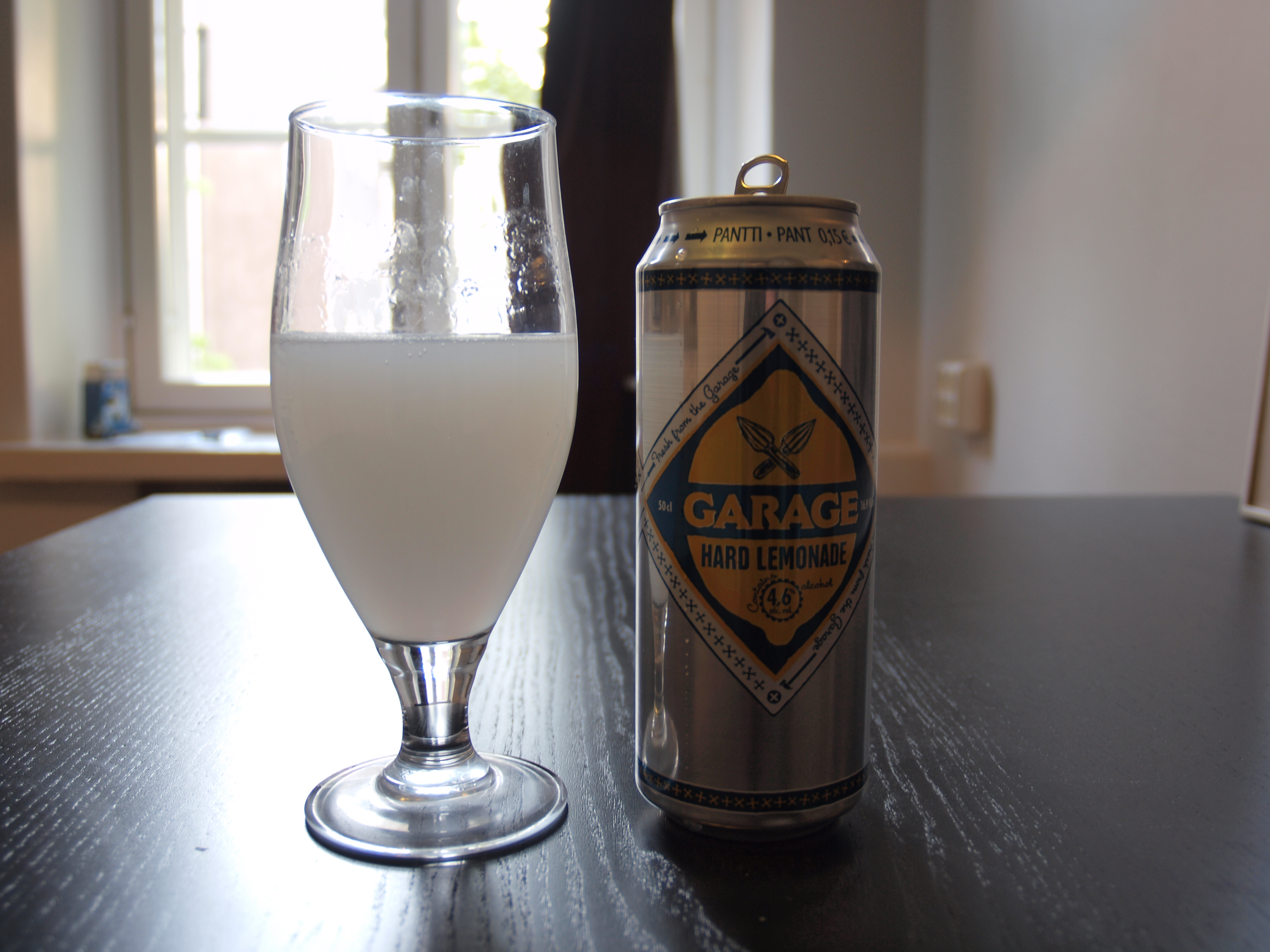 A can of Garage Hard Lemonade poured into a glass on the kitchen table of a private apartment.